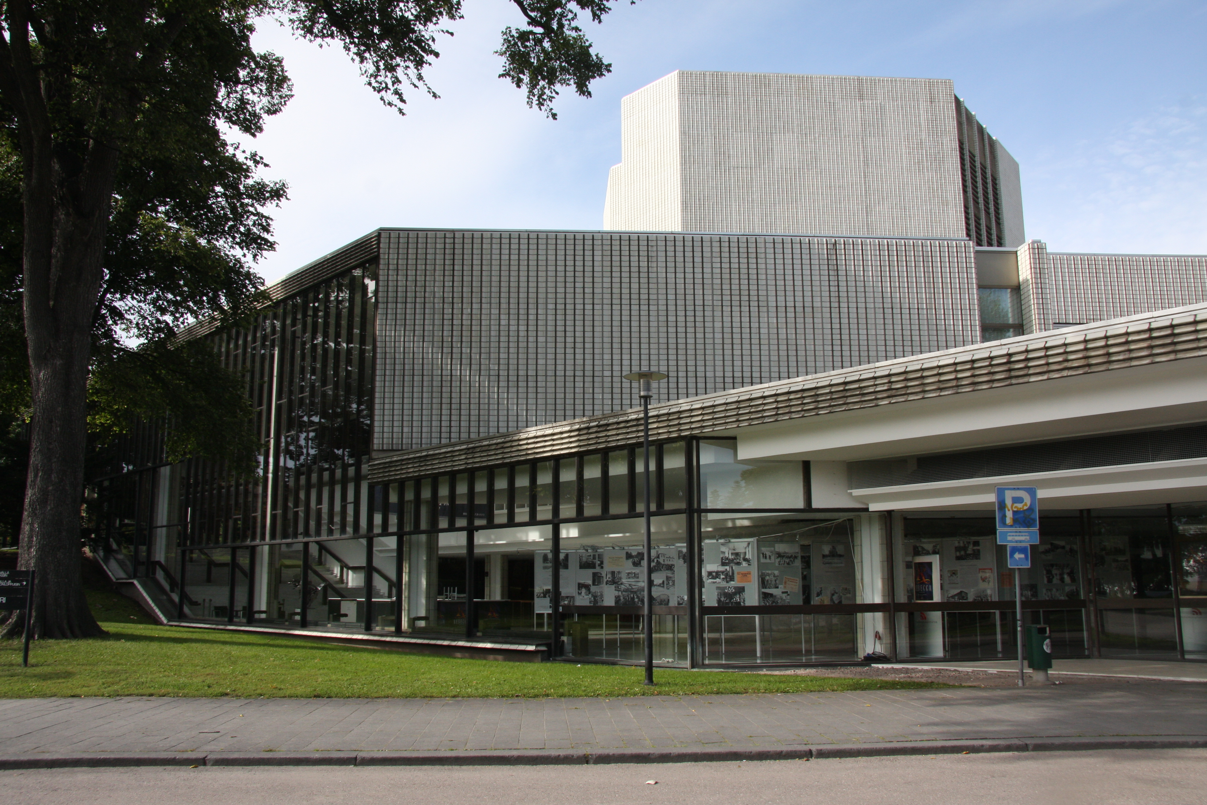 Theatre of Helsinki City